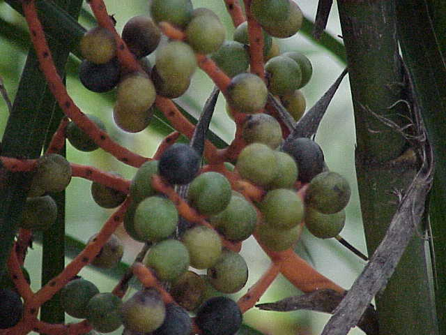 Species: Chamaedorea seifrizii Family: Palmae Image No. 6